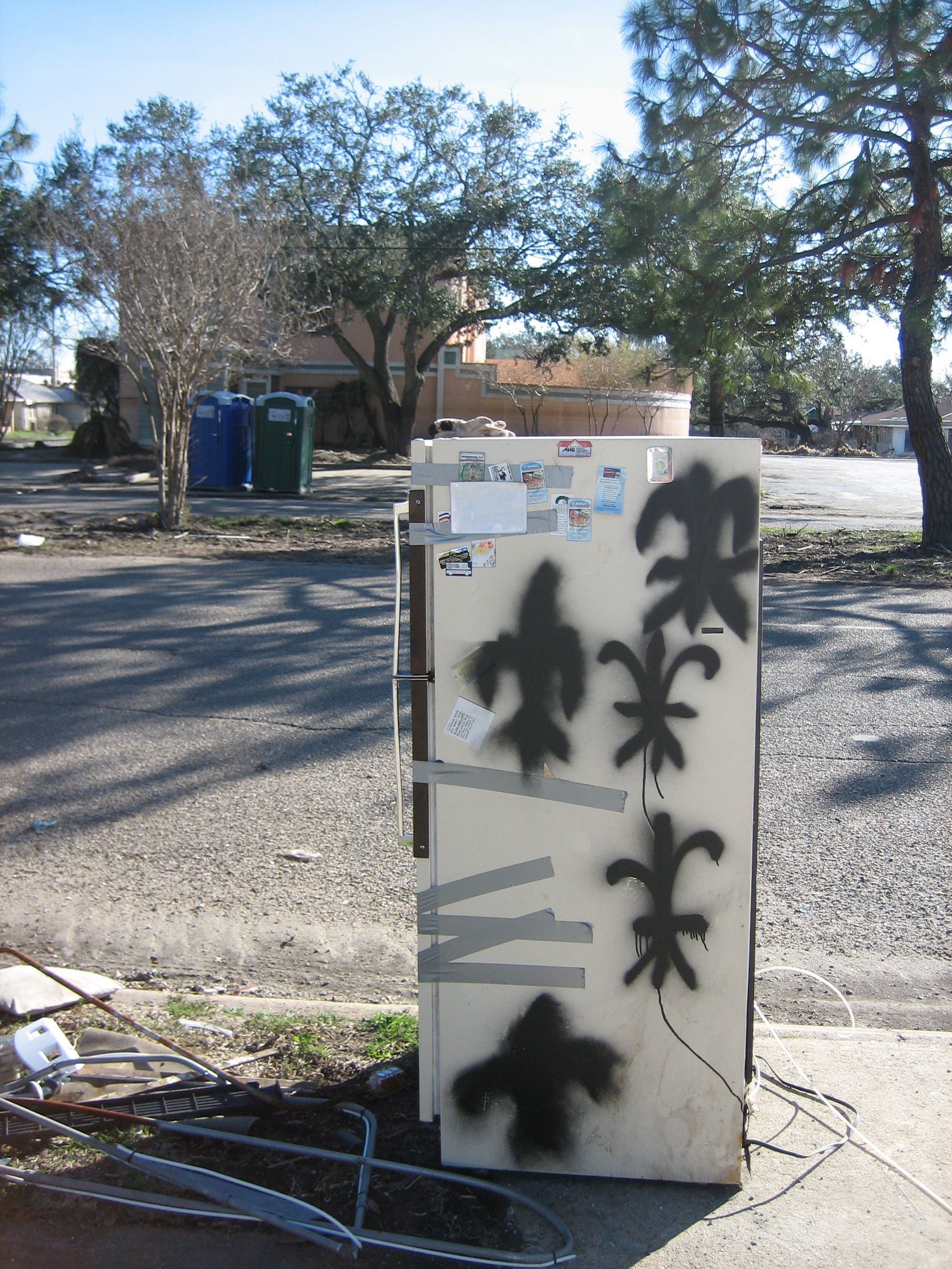 New Orleans after Hurricane Katrina: Residential neighborhood on the Lake Pontchartrain side of Robert E. Lee Boulevard. Trashed refrigerator on curb for pickup has been decorated with crude fleur de lis, a symbol of New Orleans. Note the portable toilets across the street; such are set up in may areas where people are working on gutting and restoring their homes but where many residential toilets may not be functioning.